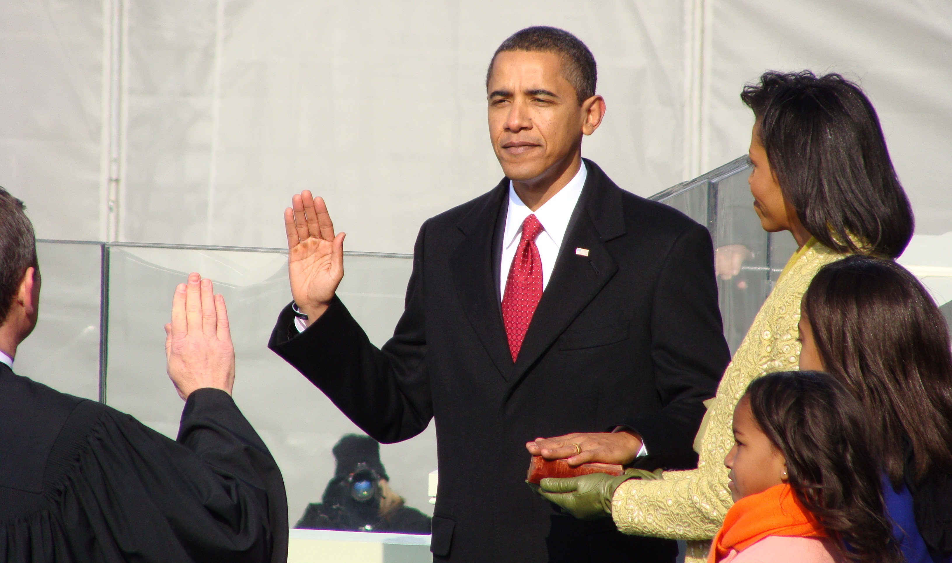 Barack Obama was sworn in as 44th President of United States on Tuesday, Jan. 20, 2009 at the U.S. Capitol Building. Obama took the oath of office with his hand on the Lincoln Bible and later addressed an estimated crowd of 2 million. U.S. Congressman Bart Stupak (D-Menominee) took this photo while attending the Inauguration.